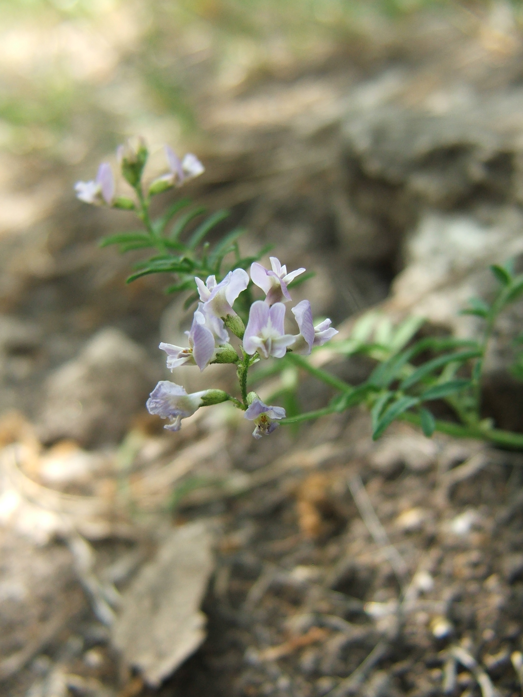 Astragalus austriacus